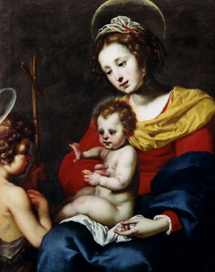 Madonna and Child and San Giovannino